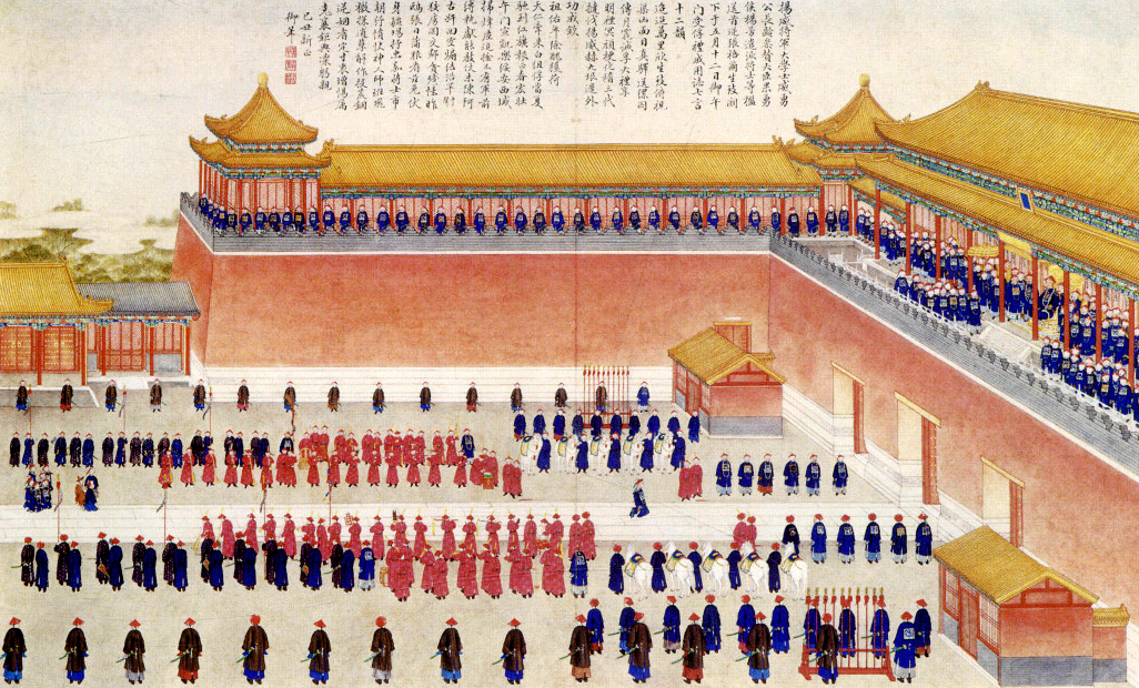 The Emperor is presented with prisoners at the Wu-men. A scene of the Chinese Campaign against Rebels in the East Turkestan, 1828